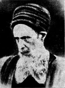 photo of israel zitun